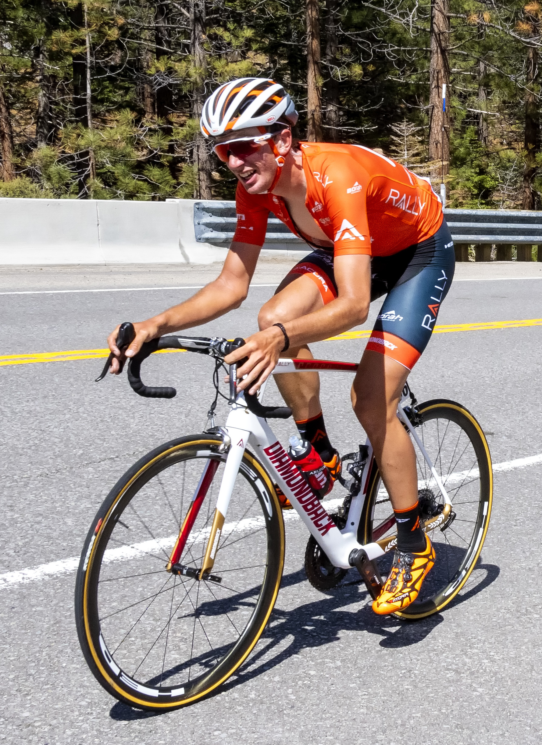 Amgen Tour of California 2018 Stage 6 from Folsom to South Lake Tahoe UCI World Tour